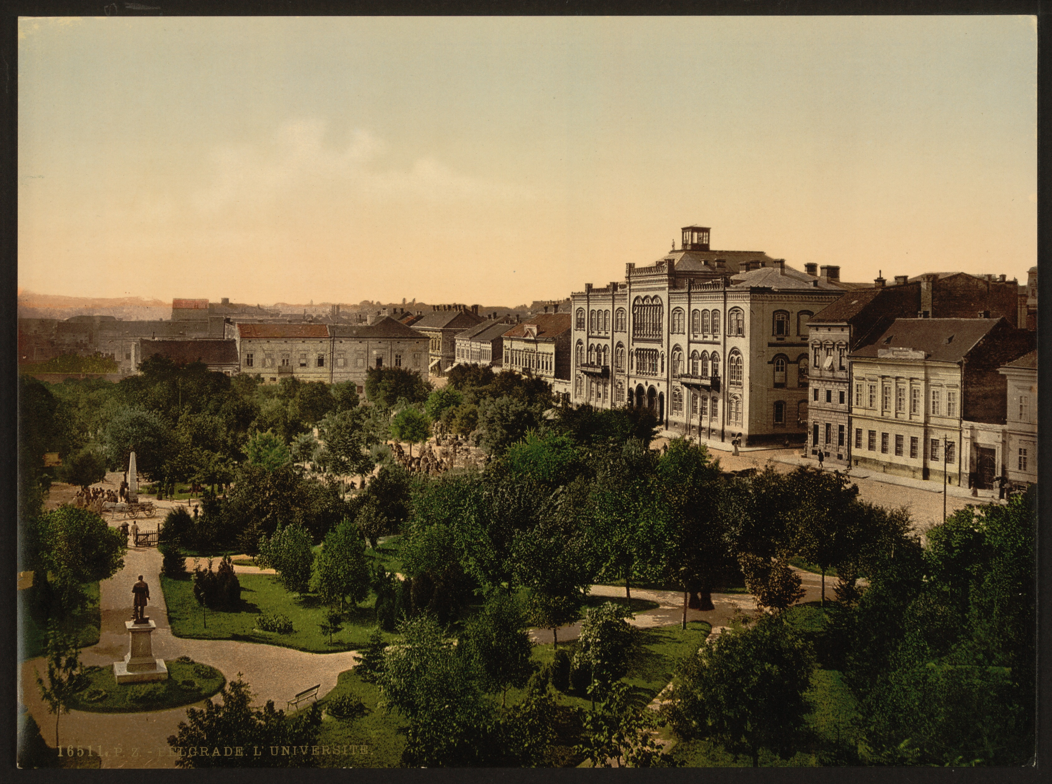 Photo shows the Kapetan Misino zdanje building in center background.